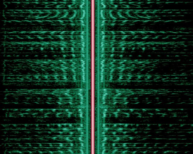 The signal of an AM radio station on the MW band. Time runs from up to down, frequency from left to right. The strong vertical line in the center, artificially colored red, is the carrier wave at 558 kHz; the two mirrored audio spectra (green) are the lower and upper sideband.